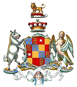 Coat of arms for Baron Vere of Hanworth